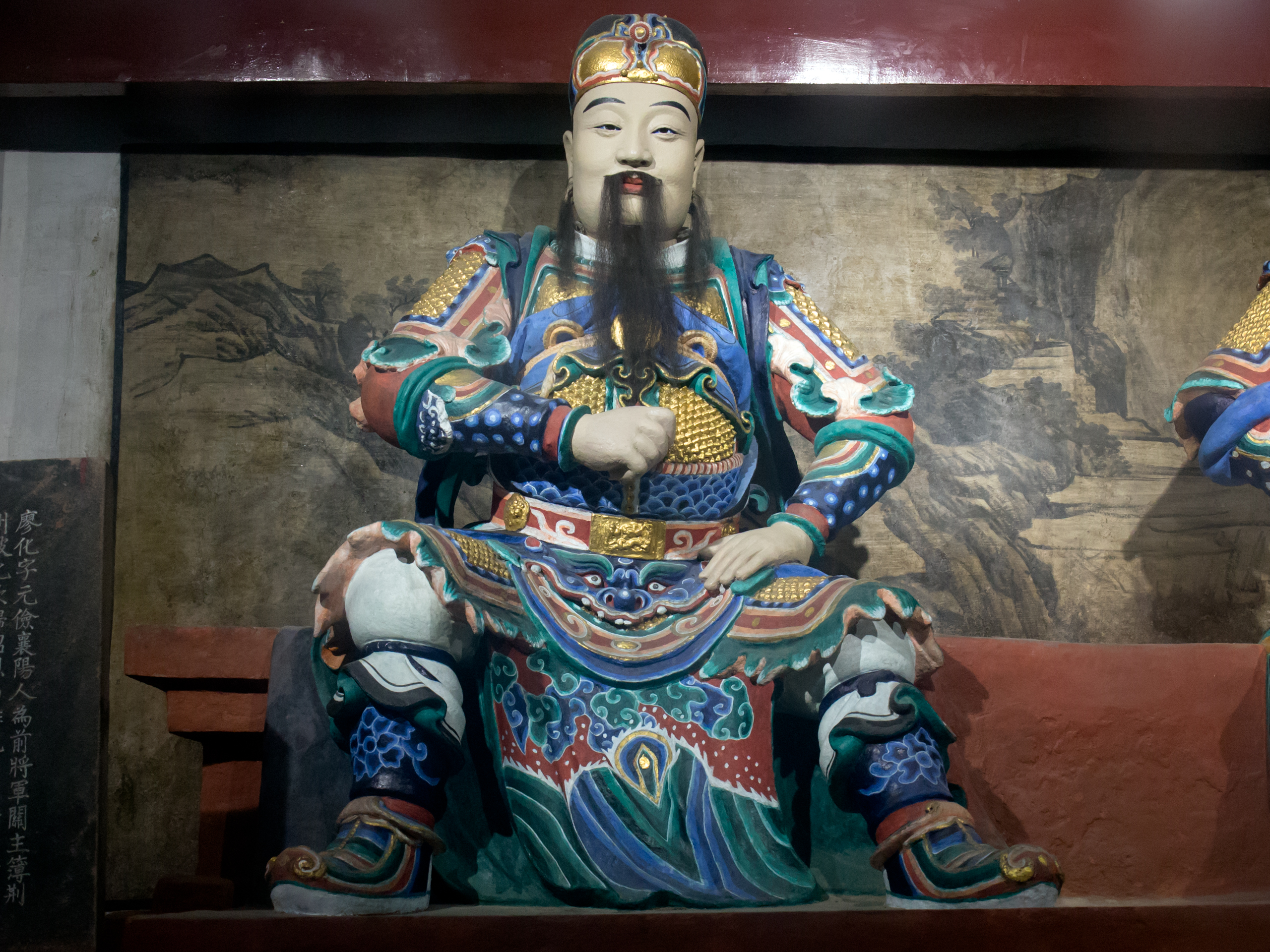 Liao Hua (廖化)